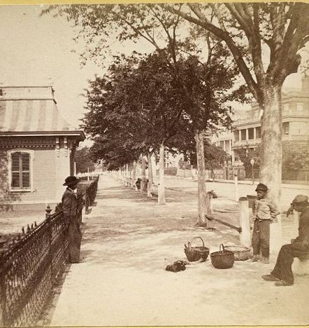 This photograph was taken near the intersection of Meeting St. and South Battery. A group of young, black vendors is shown selling poultry. A Victorian building is shown just inside an iron fence. Neither the building nor the fence remains.